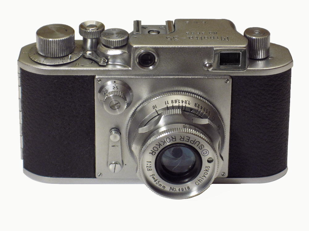 Minolta-35 second version with C.K.S. markings